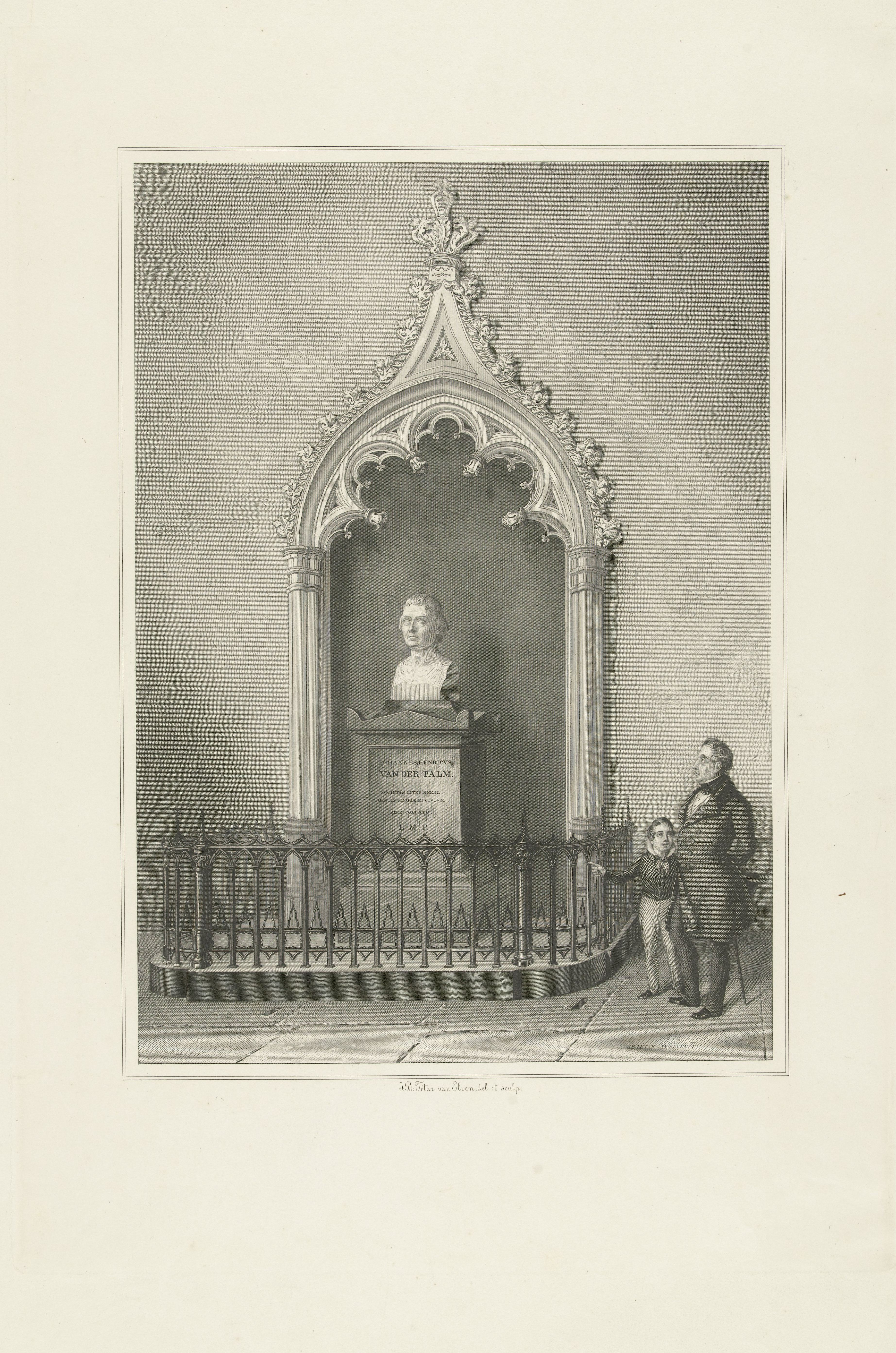 Steel engraving by Jan Baptist Tetar van Elven (1805 - 1889), Dutch painter and engraver.